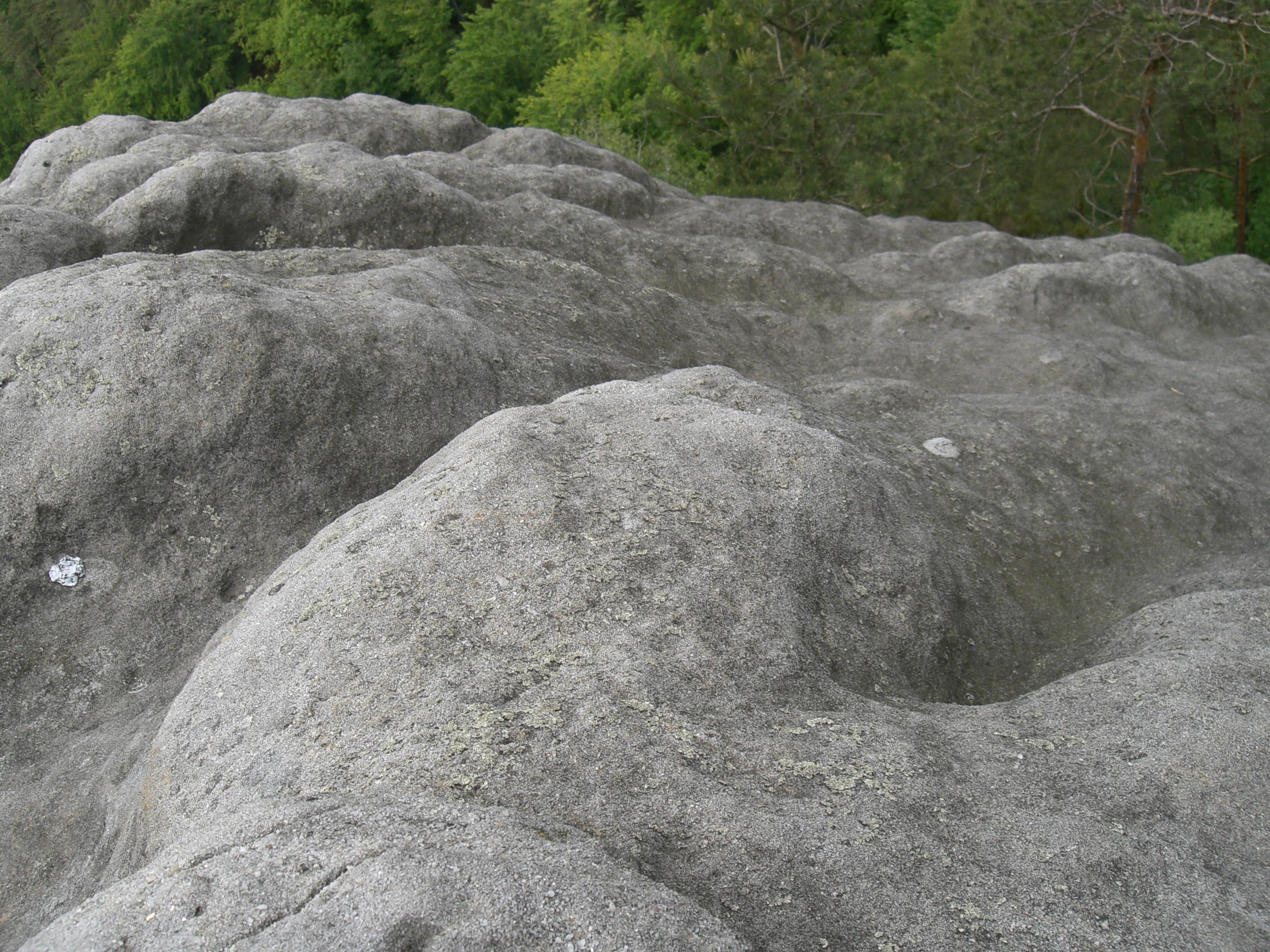 Pseudo - Limestone pavement in sandstone, Labské Pískovce, Czech Republic.